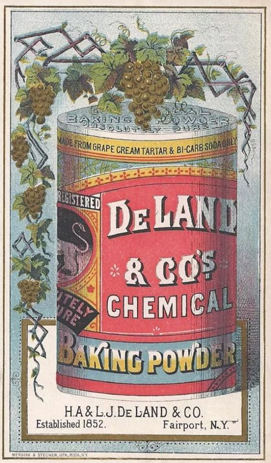 Advertisement for DeLand & Co's Chemical Baking Powder (Established 1852, Fairport, New York.)